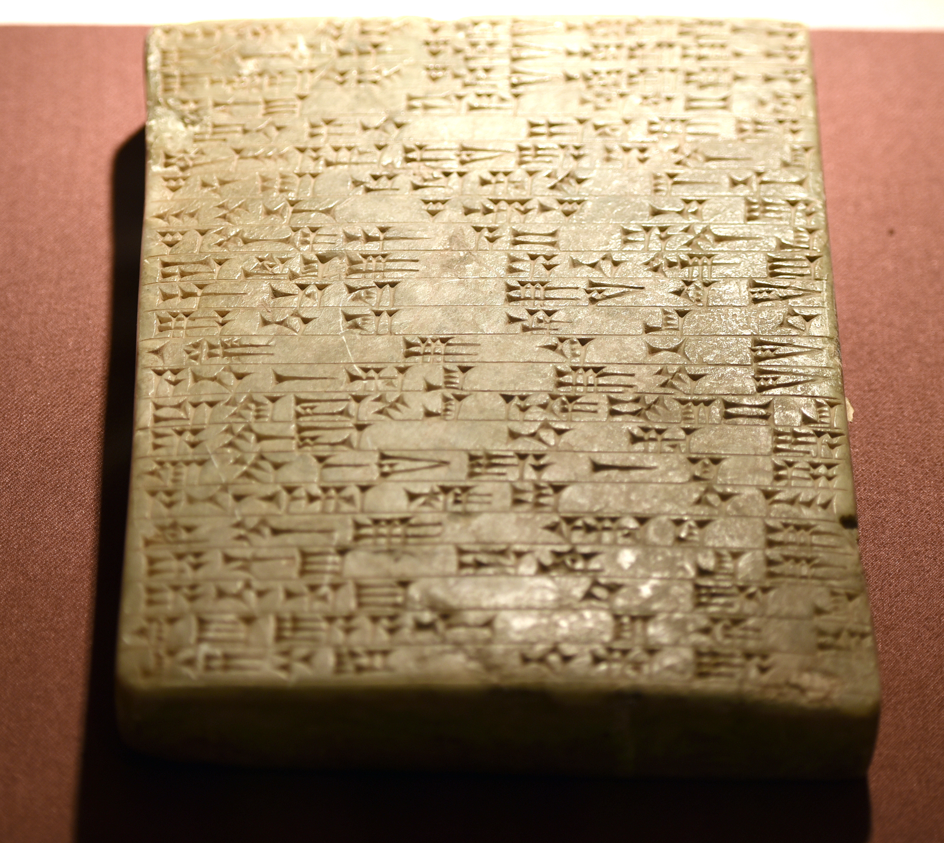 Inscribed stone tablet of the Assyrian King Adad-nirari II (r. 912-891 BCE). The cuneiform inscription mentions the King's construction work. From Assur, Iraq. Iraq Museum.